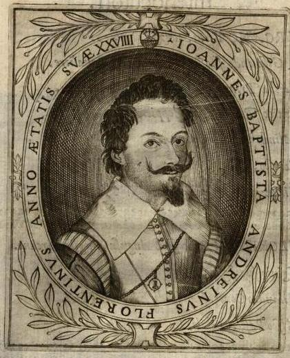 Engraved portrait of the Italian actor, playwright, and poet Giovan Battista Andreini (1576 or 1579 – 1654). He is depicted here aged 29. This portrait appears in the 1606 edition of his play La Florinda published in Milan by G. Bordone. The original book is held in the public library of Lyon.